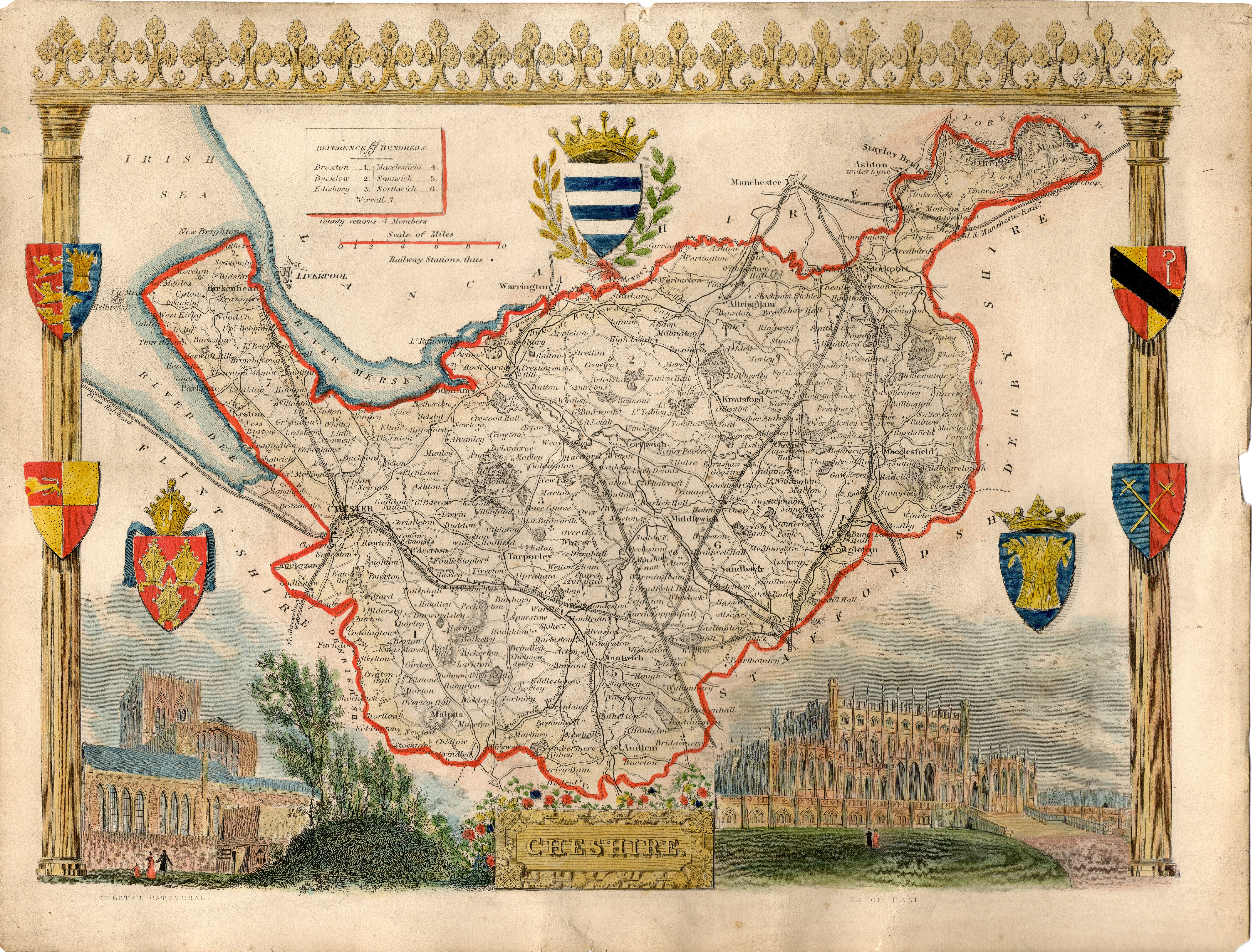 Map of Cheshire from the Philips Senior School Atlas, dated September 1923.